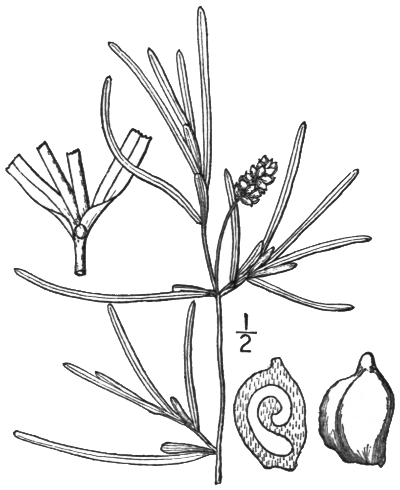 Fig. 195. Potamogeton obtusifolius from the second edition of An Illustrated Flora of the Northern United States, Canada and the British Possessions (New York, 1913)